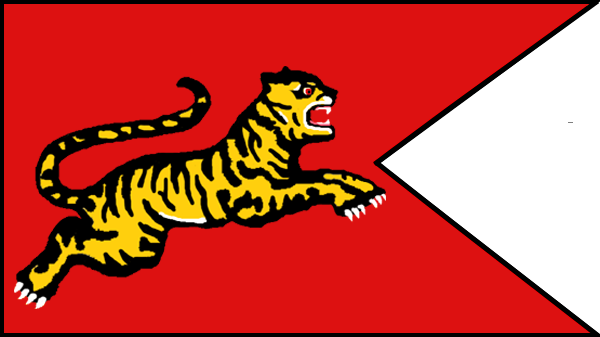 This picture shows the flag of the Chola kingdom. The flag of the Cholas was jumping tiger (Tamil: பாயும் புலி) according to the Periya Puranam. There is no official image of the Chola flag. This picture should help to imagine and reconstruct the Chola flag. The flag contains traditional Tamil colors, red, yellow, black and white.